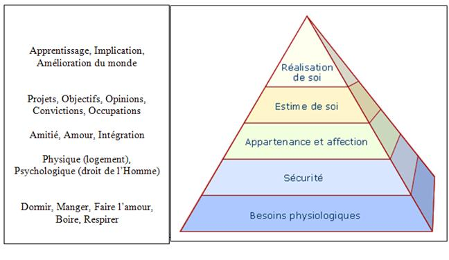 Theory of Human Motivation